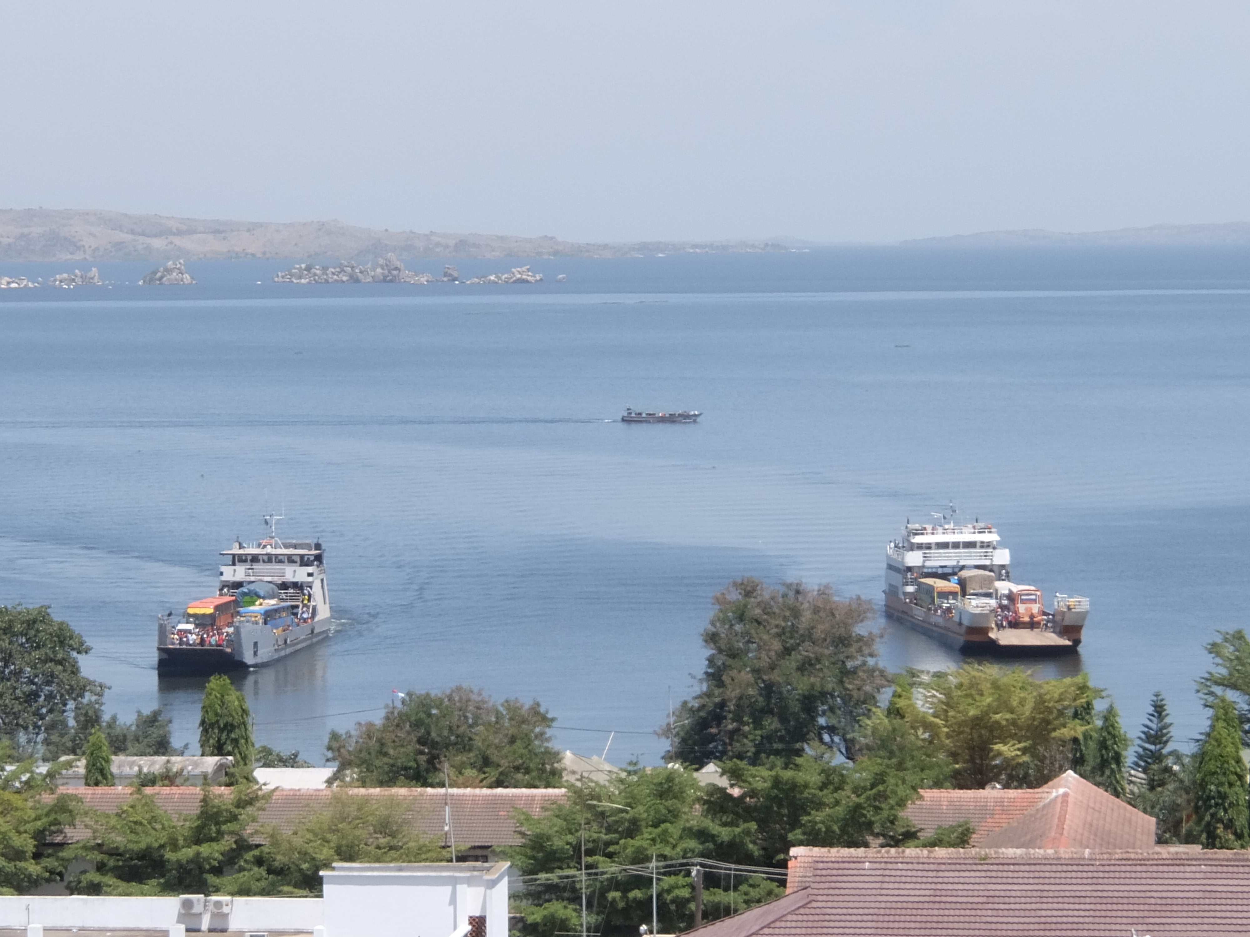 Two ferries arriving at the port of Mwanza. These ferries run between Mwanza and Kamanga (Sengerema District).